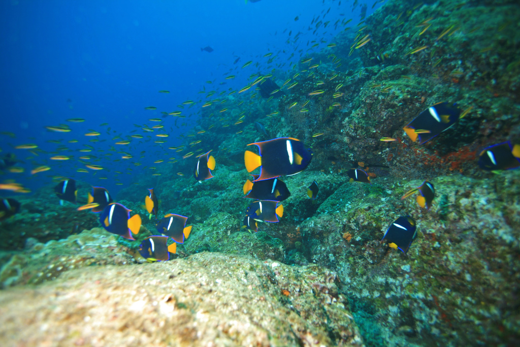 These are Passer Angelfish (Holocanthus passer) and they were photographed on a morning dive at Czech Point dive site in the waters of Coiba National Park, Panama.